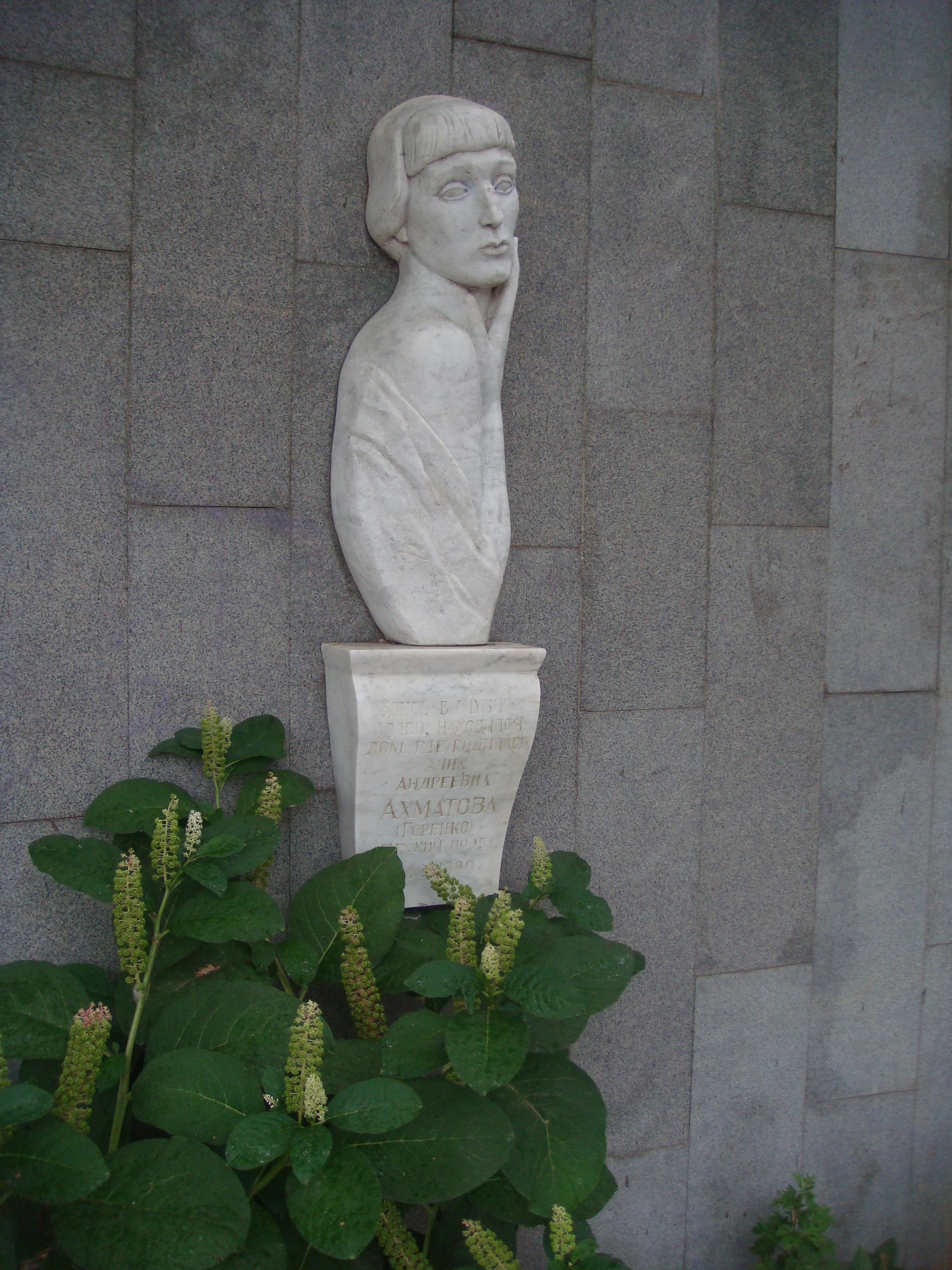 Marble bas-relief dedicated to Anna Akhmatowa in Odessa. Located at place where she was born in 1889.